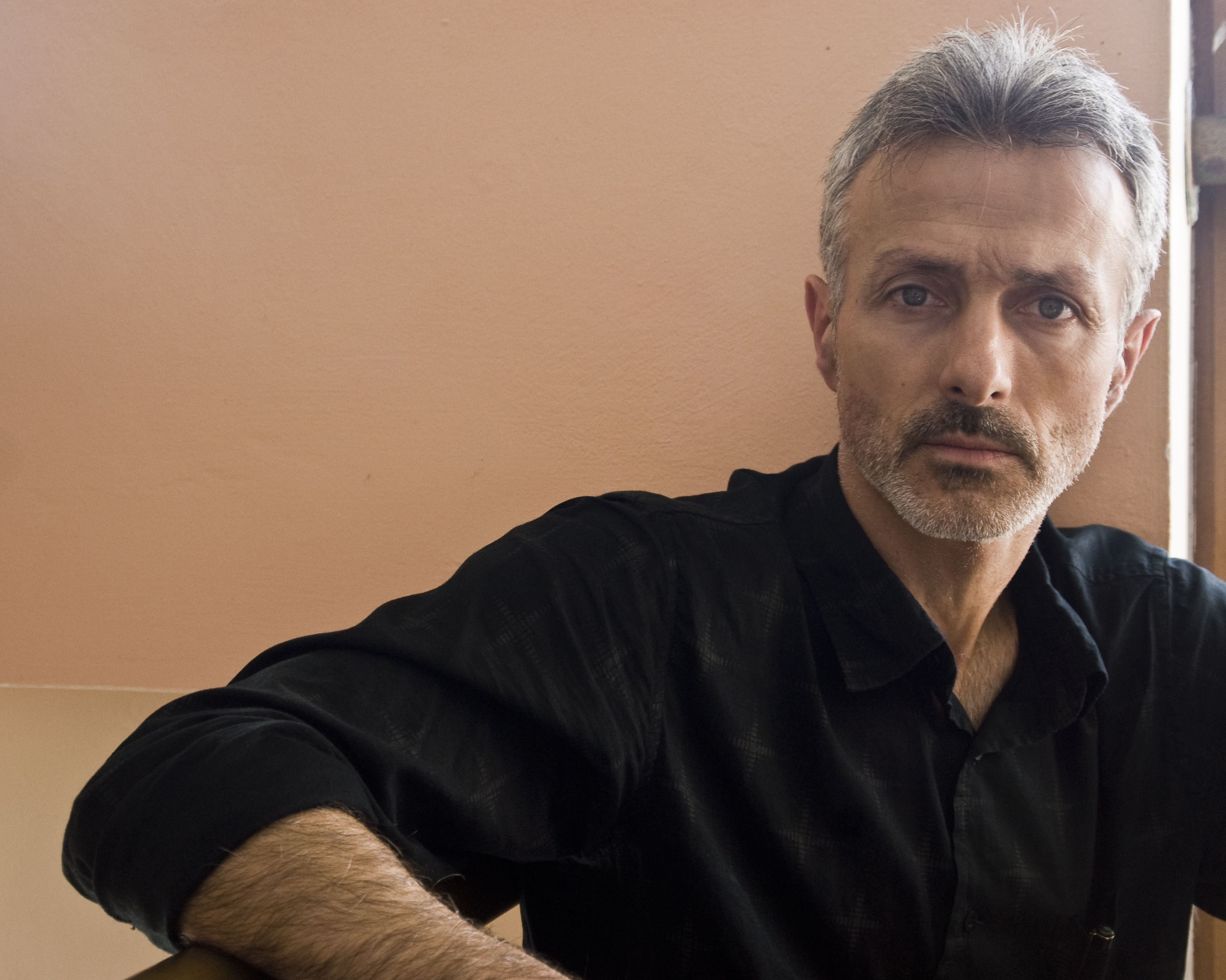 Photograph of Xabier Quiroga